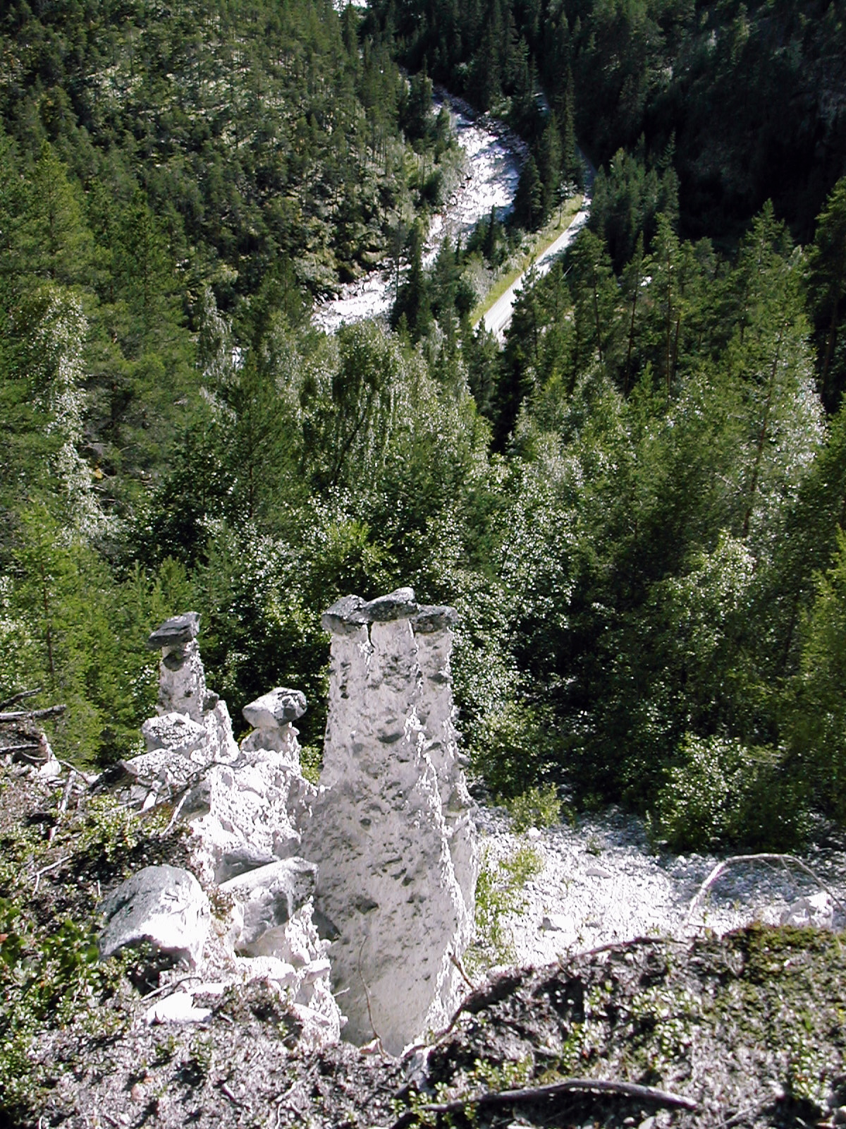 Kvitskriduprestin is an erotion phenome in the municipality of Sel, Norway.